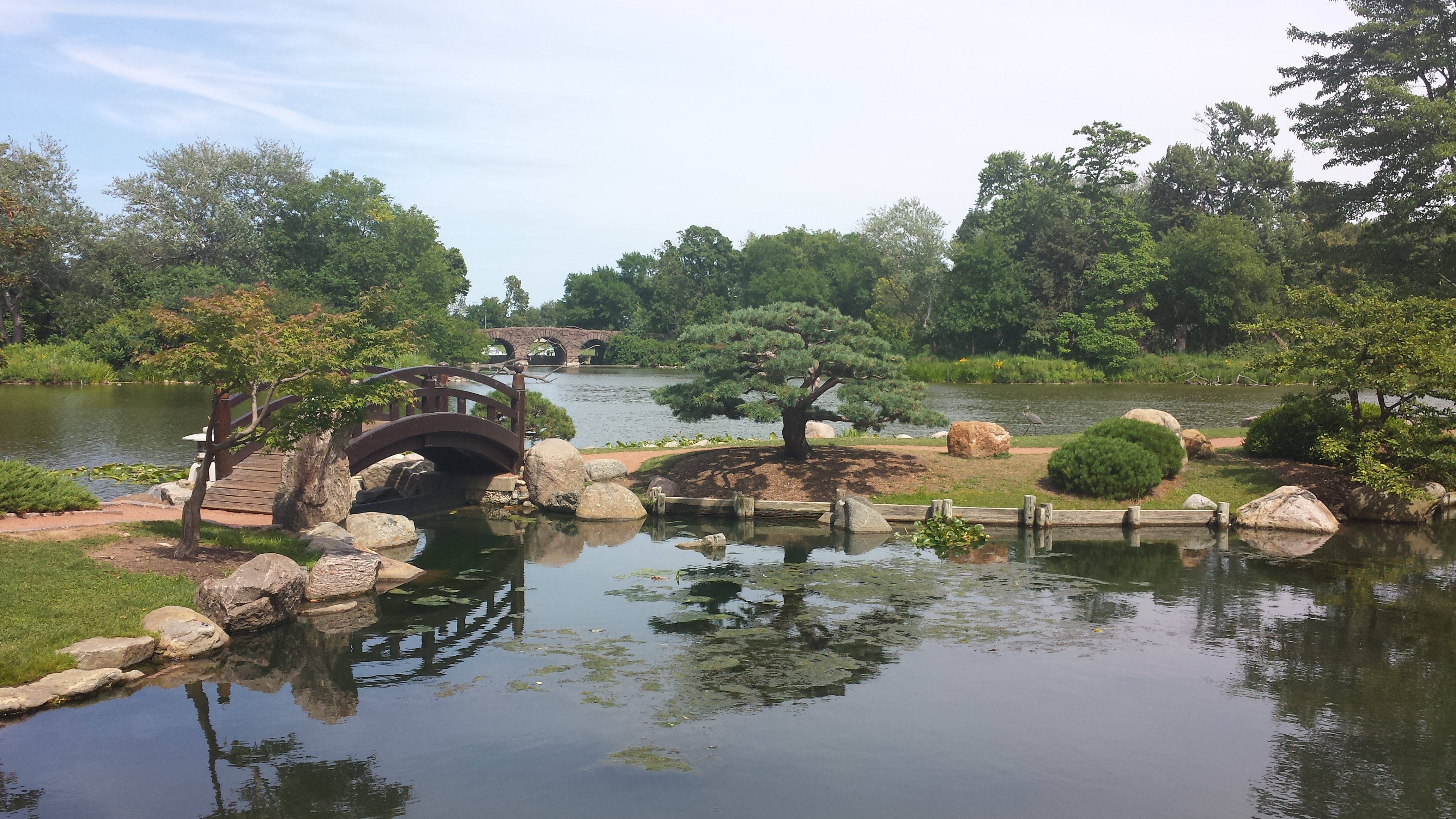 Moon Bridge, Osaka Garden ("Japanese Garden"), Wooded Island, Jackson Park, Chicago